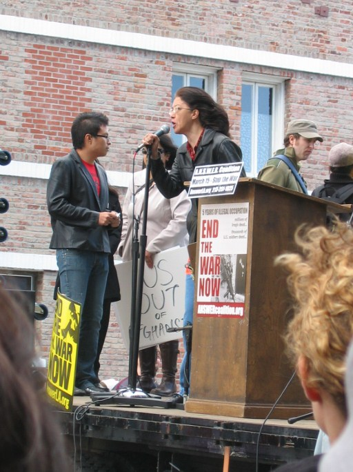 Gloria La Riva addresses antiwar protestors in Hollywood, California on March 15, 2008.